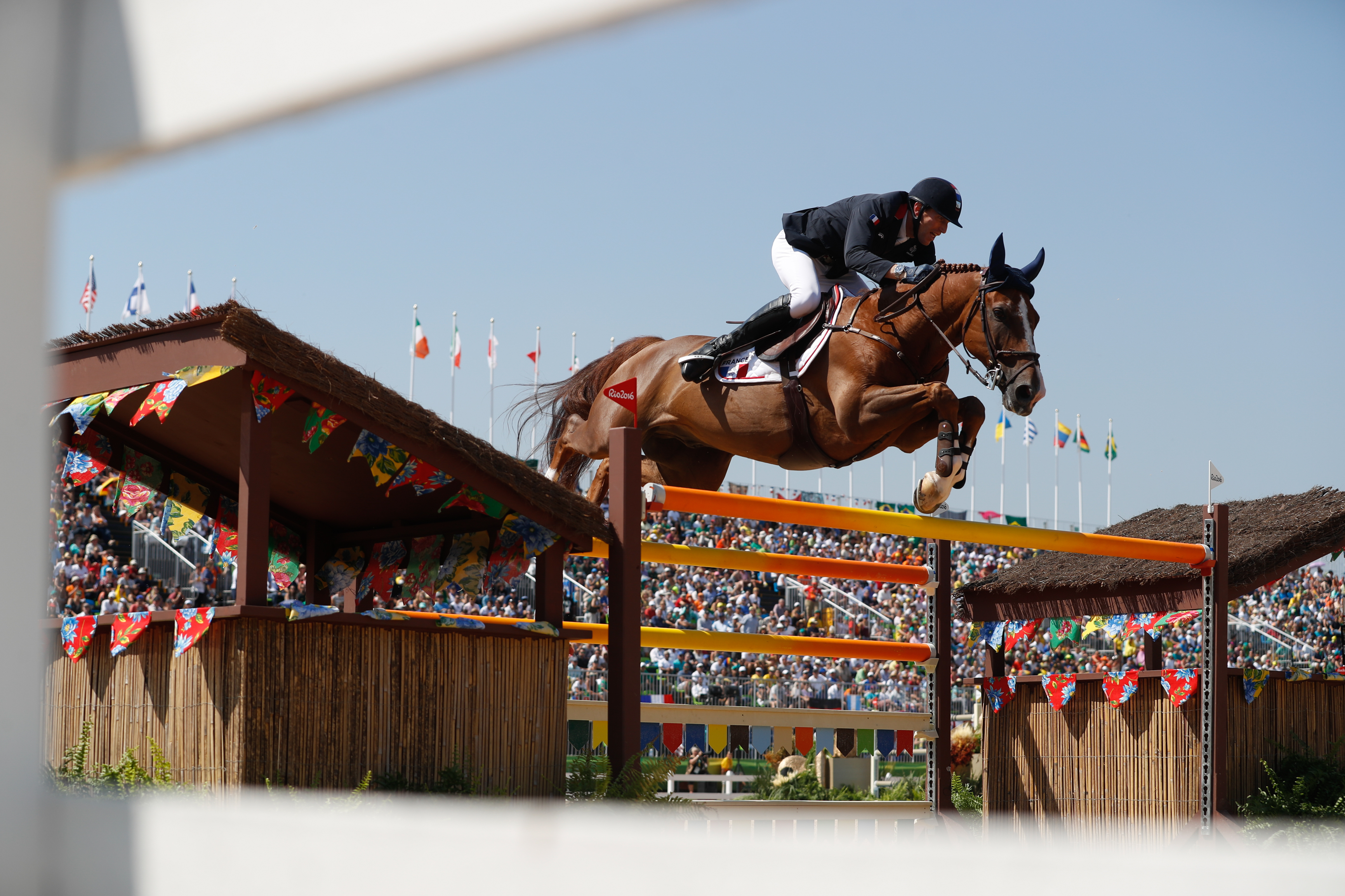 Rio de Janeiro - Cavaleiro francês Kevin Staut na competição de saltos do hipismo por equipes em que ganhou ouro nos Jogos Olímpicos Rio 2016, em Deodoro. ( Fernando Frazão/Agência Brasil)